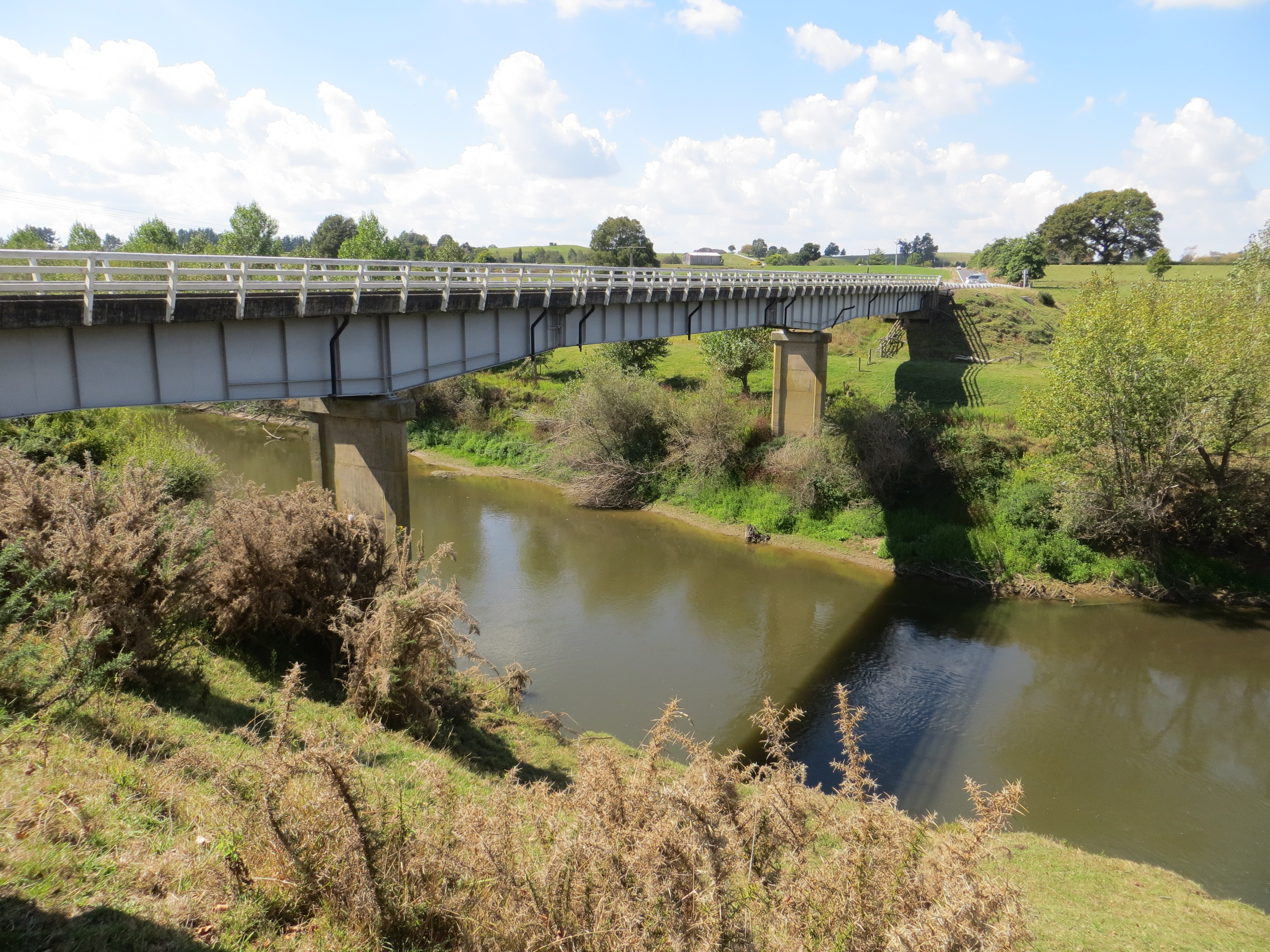 rebuilt 1957